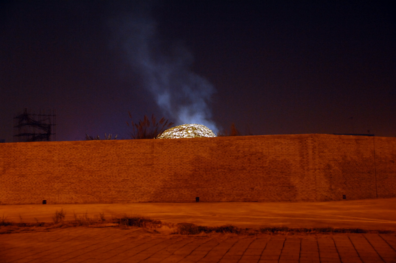 Bug Dome in 2009 Shenzhen & Hong Kong Biennale of Urbanism/Architecture. WEAK! architects - Roan Ching-yueh, Marco Casagrande, Hsieh Ying-chun.